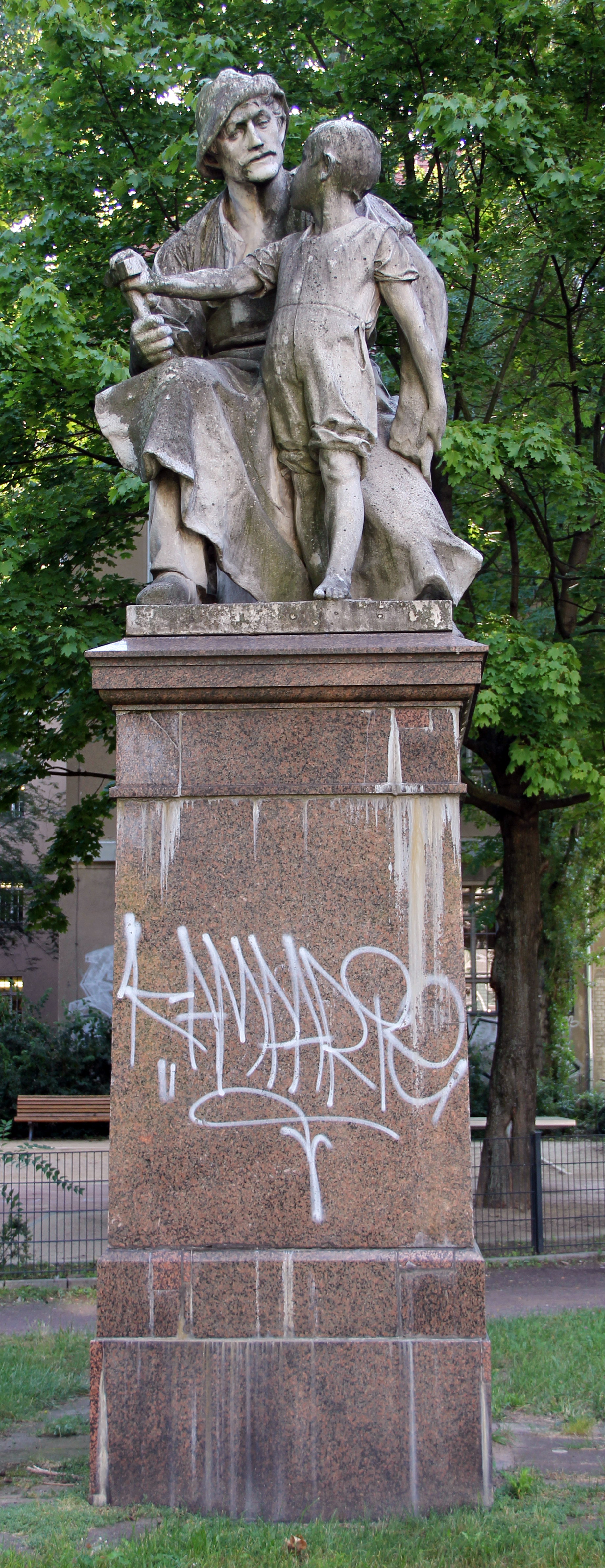 Statue, Handwerker mit Sohn, by Wilhelm Haverkamp, 1898, Andreasstraße 21, Berlin-Friedrichshain, Germany